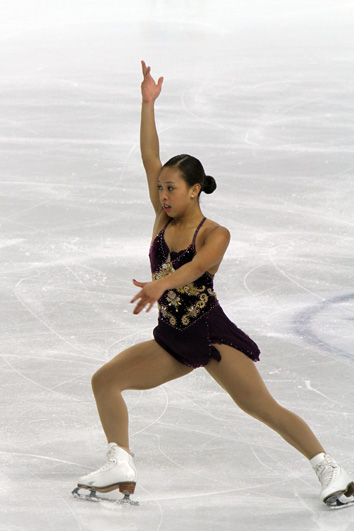 2010 World Figure Skating Championships - Cheltzie Lee